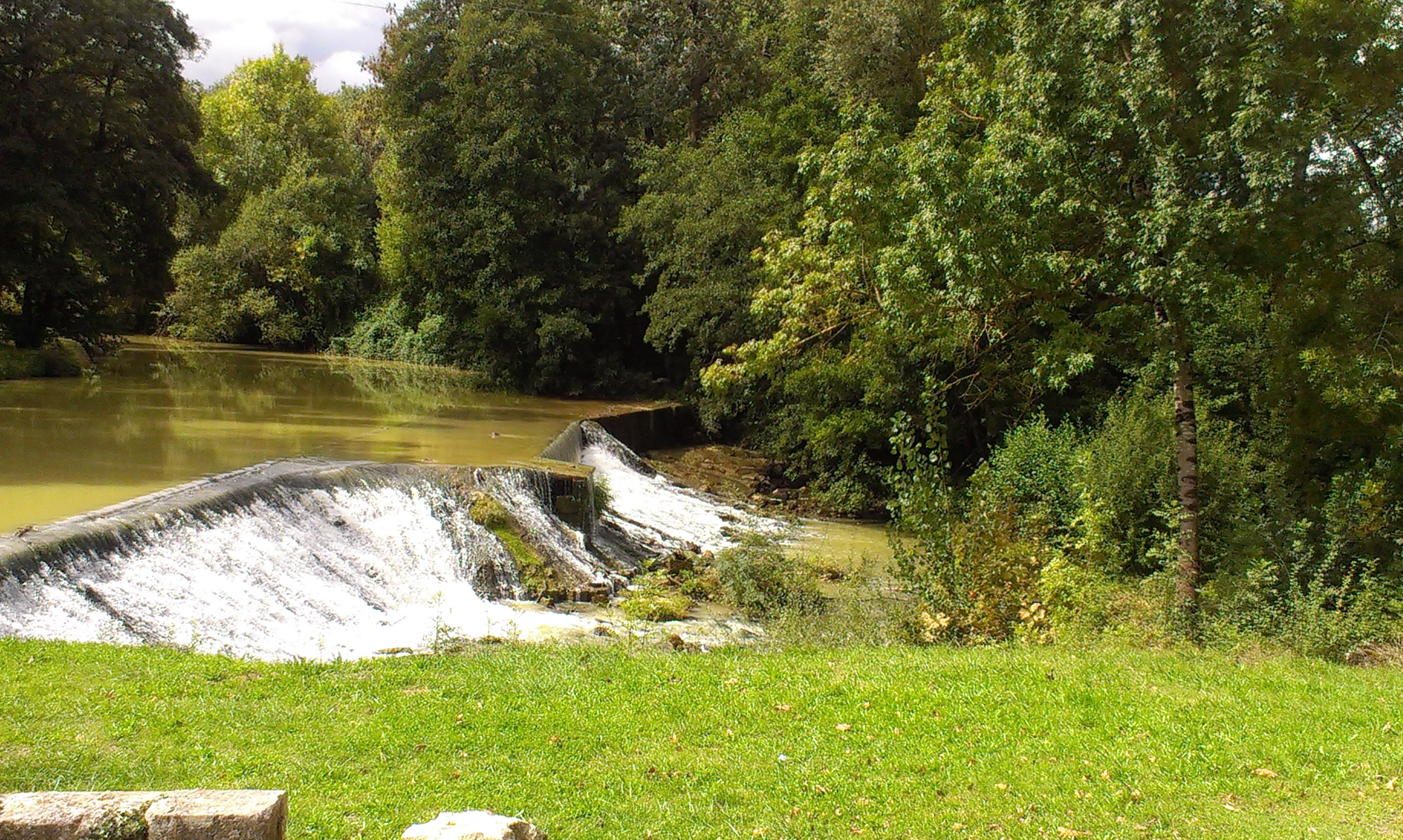 Astaffort is a commune in the Lot-et-Garonne department in southwestern France.